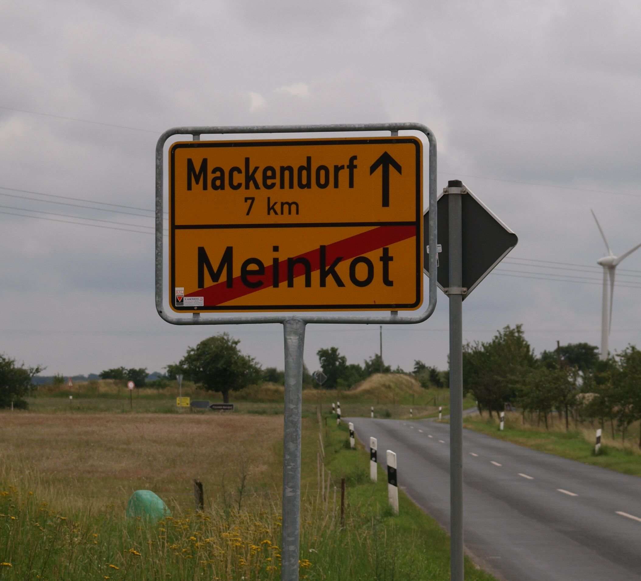 Signpost at the exit of village Meinkot in Lower Saxony, Germany.